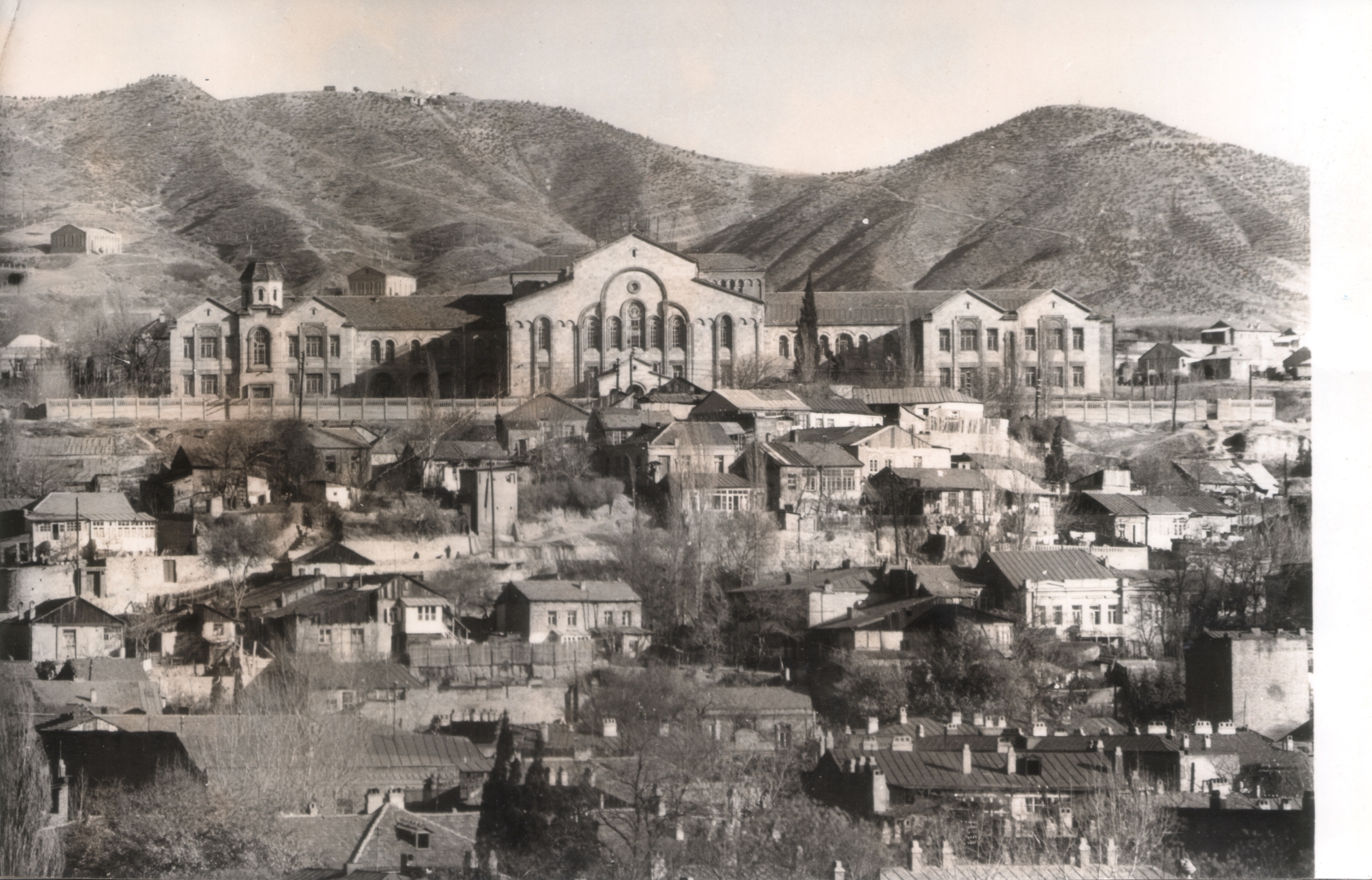 Nersisyan School in Tiflis